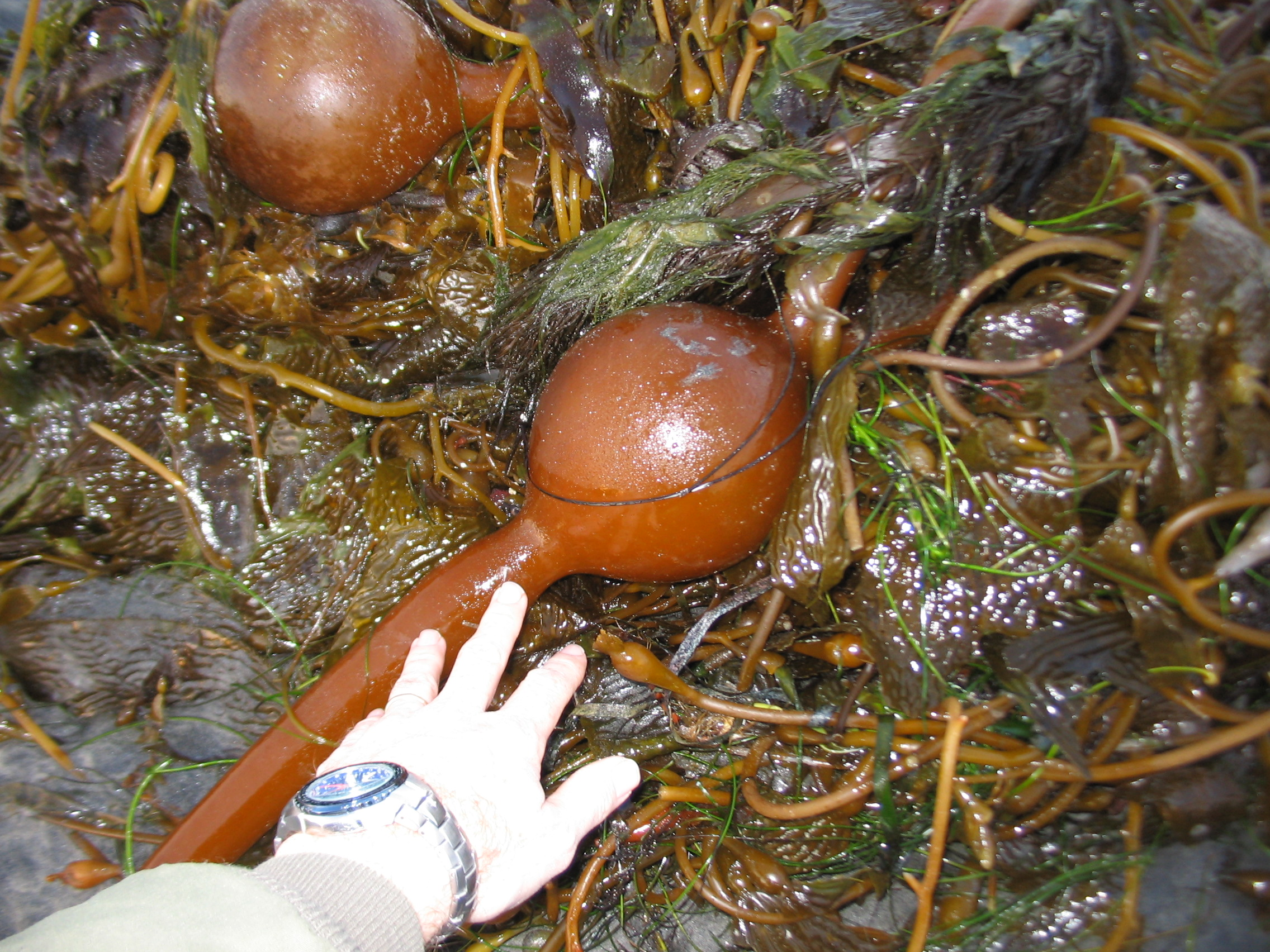 Photo showing drift deposits of kelp (giant seaweeds) : large floats belong to the algal species Nereocystis luetkeana, tiny floats, blades and entangled cords belong to Macrocystis pyrifera. Taken in San Diego